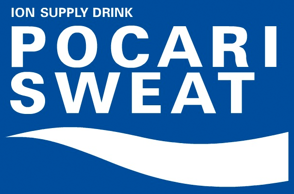 Pocari Sweat logo.